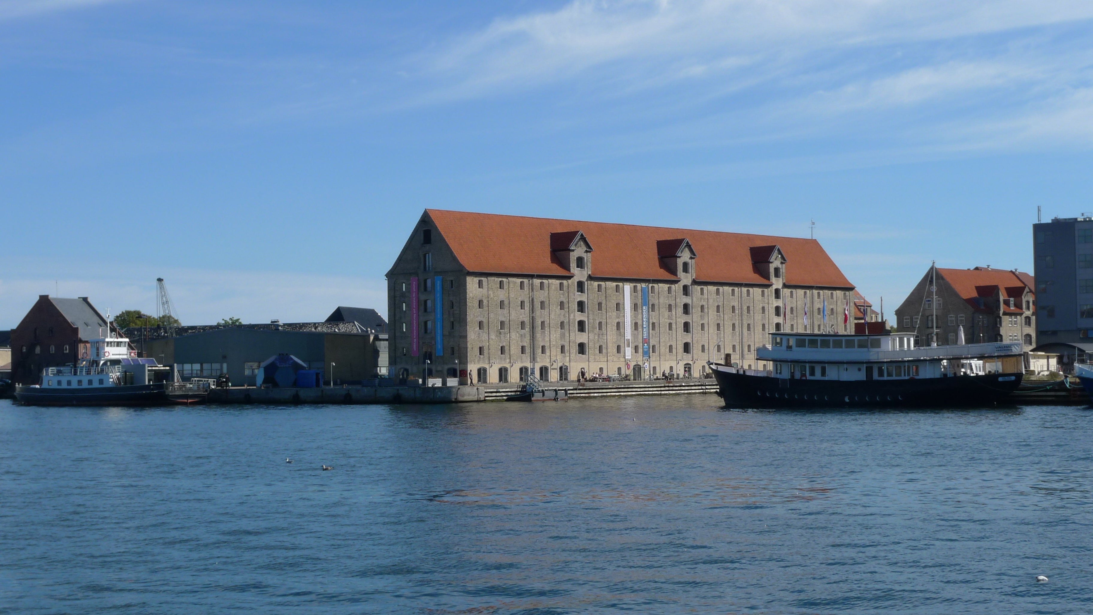 Nordatlantens Brygge, a former warehouse in Copenhagen, Denmark, now a cultural centre for the North Atlantic area and also home to Restaurant Noma